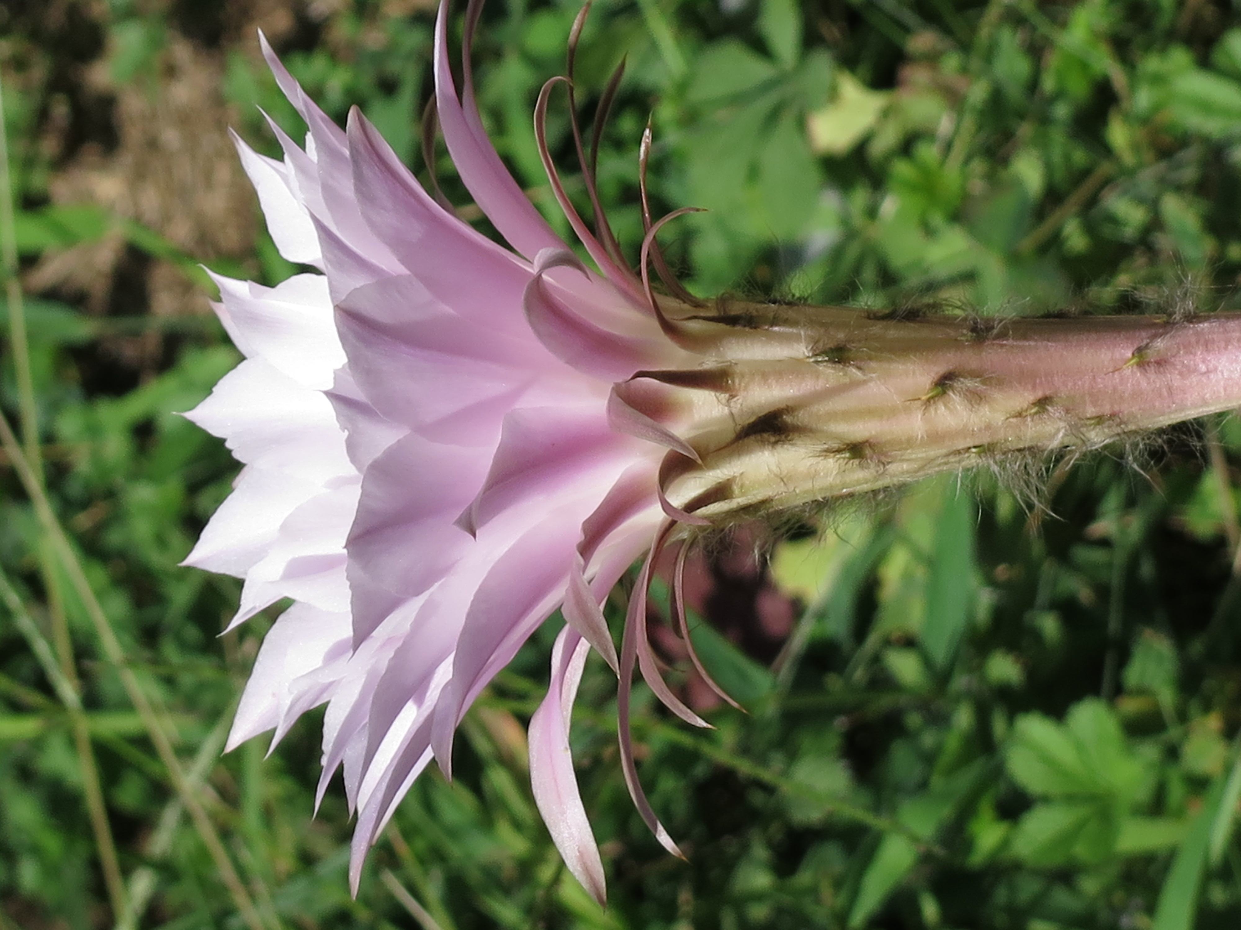 Echinipsis: a pink flower